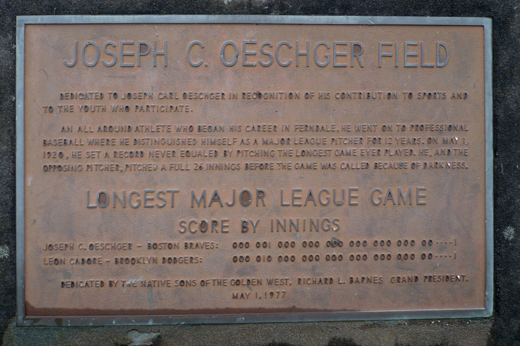 Historical Marker at Ferndale Fireman's Park ballfields. Inscription reads: "Joseph C. Oeschger Field. Dedicated to Joseph Carl Oeschger in recognition of his contribution to sports and to the youth who participate. An all around athlete who began his career in Ferndale, he went on to professional baseball where he distinguished himself as a major league pitcher for 12 years, on May 1, 1920, he set a record never equaled by pitching the longest game ever played. He, and the opposing pitcher, pitched a full 26 innings before the game was called because of darkness. Longest Major League Game Score by Innings - Joseph C. Oeschger - Boston Braves 000 001 000 000 000 000 000 000 00....- Leon Cadore - Brooklyn Dodgers 000 010 000 000 000 000 000 000 00....- Dedicated by the Native Sons of the Golden West, Richard L. Barnes Grand President, May 1, 1977"